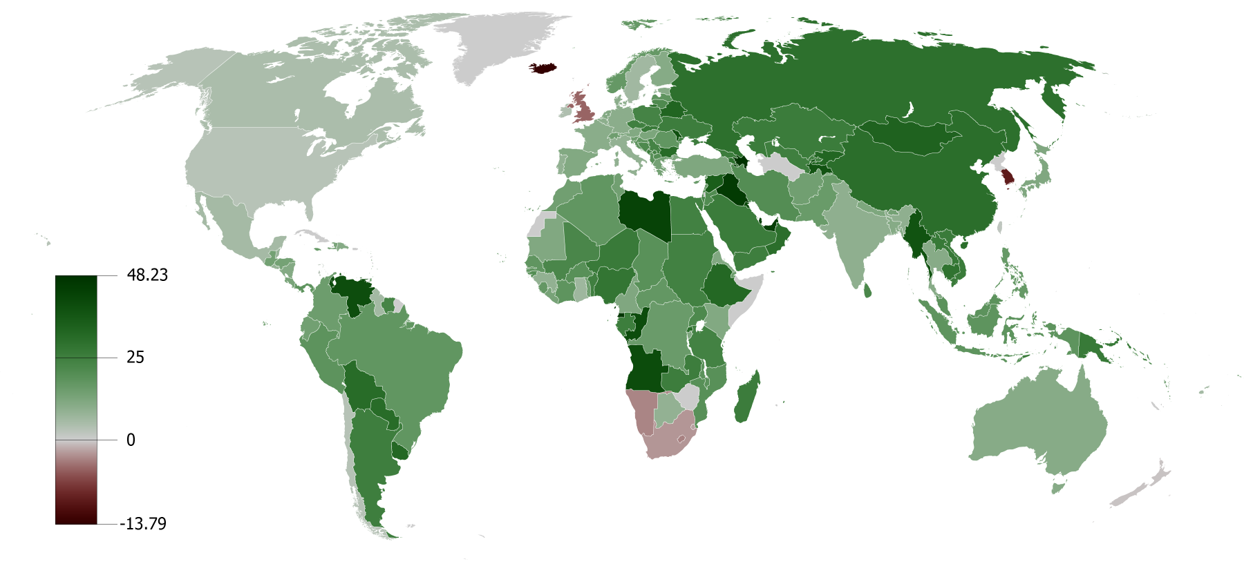 Gross domestic product growth from 2007 to 2008, no inflation adjustments.